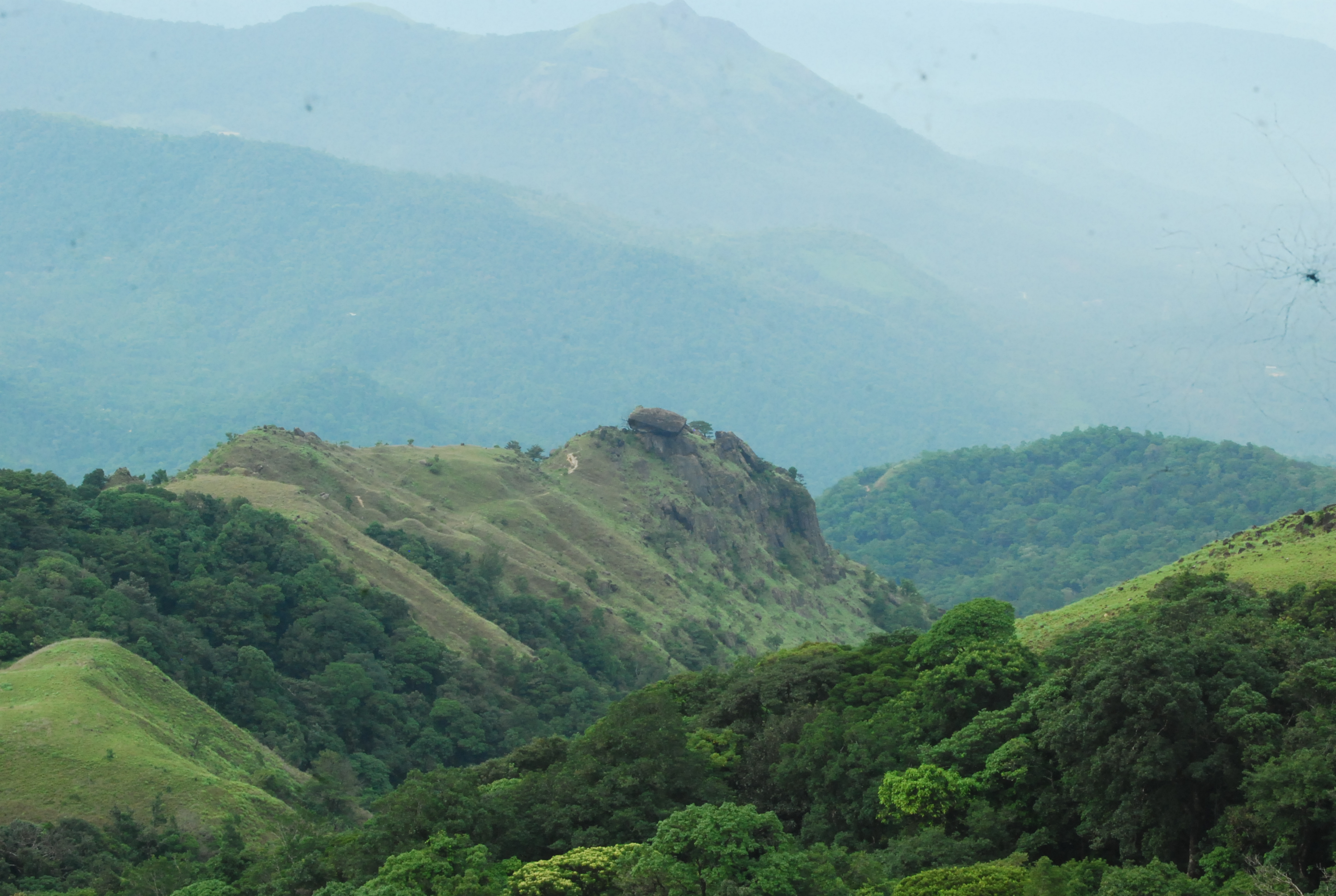 CHARMADI GHAT SECTION PART OF WESTERN GHAT.